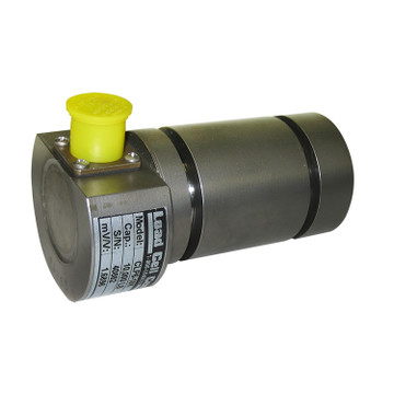 CLP load pin load cell